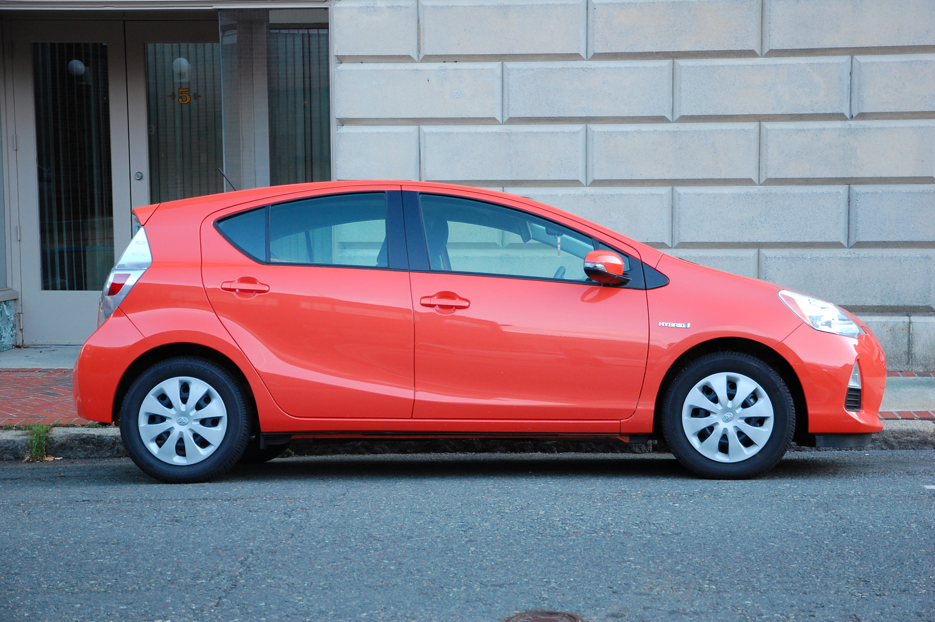 Toyota Prius C in Massachusetts.